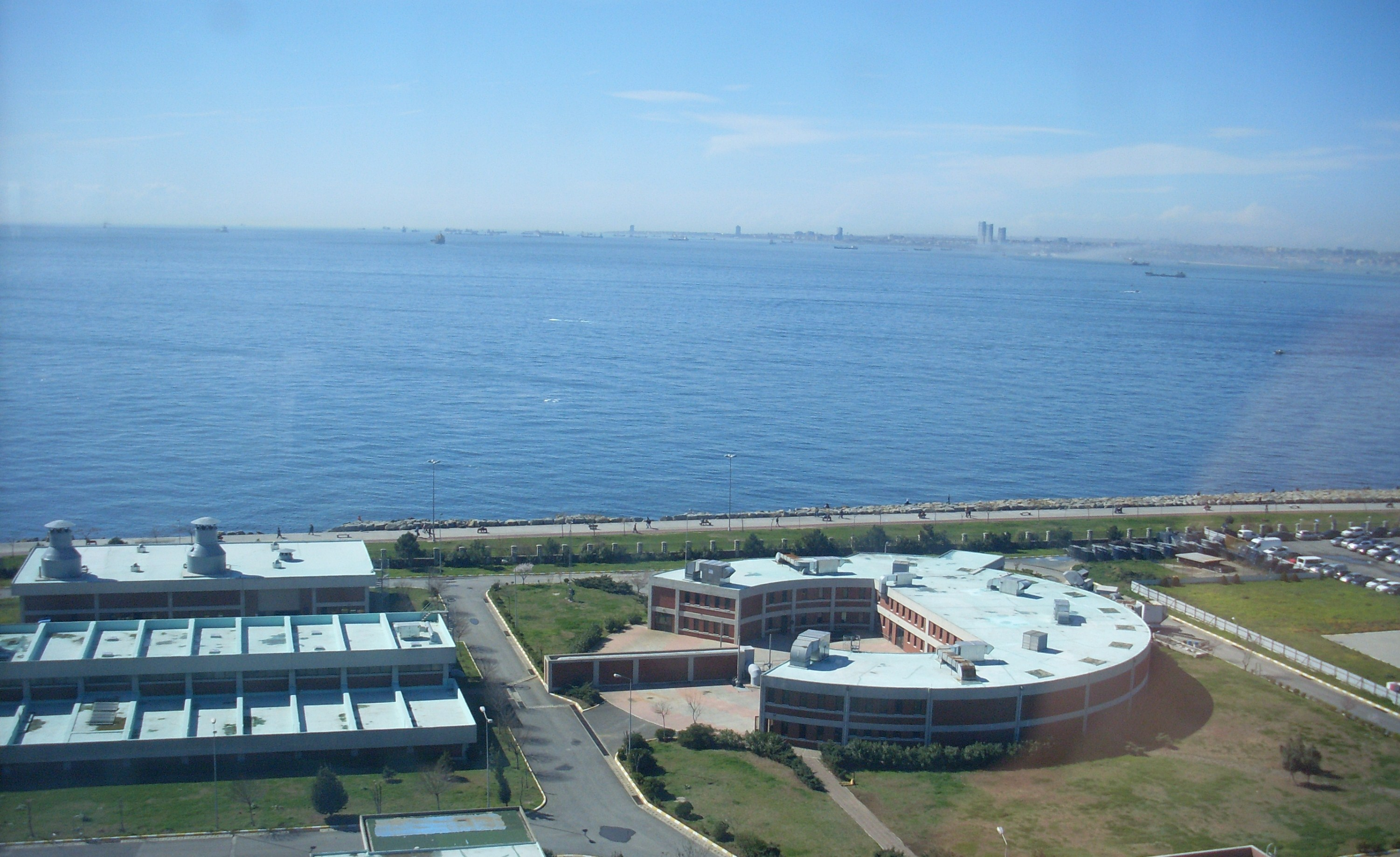 Kadıköy